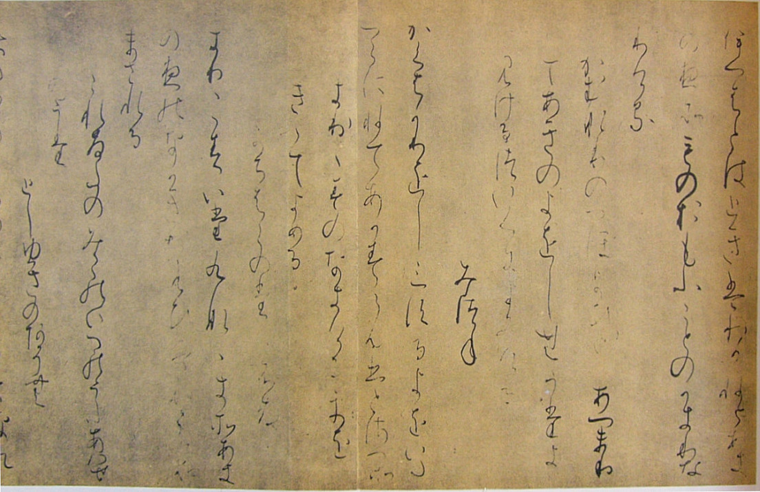 A part of Kokin Waka Shu (An Imperial Poetry Anthology) known as "Sekido hon",ink on dyed paper, A part of volume 4th. 11th century, Japan, Store in SEKIDO Family, Nagoya,Japan.